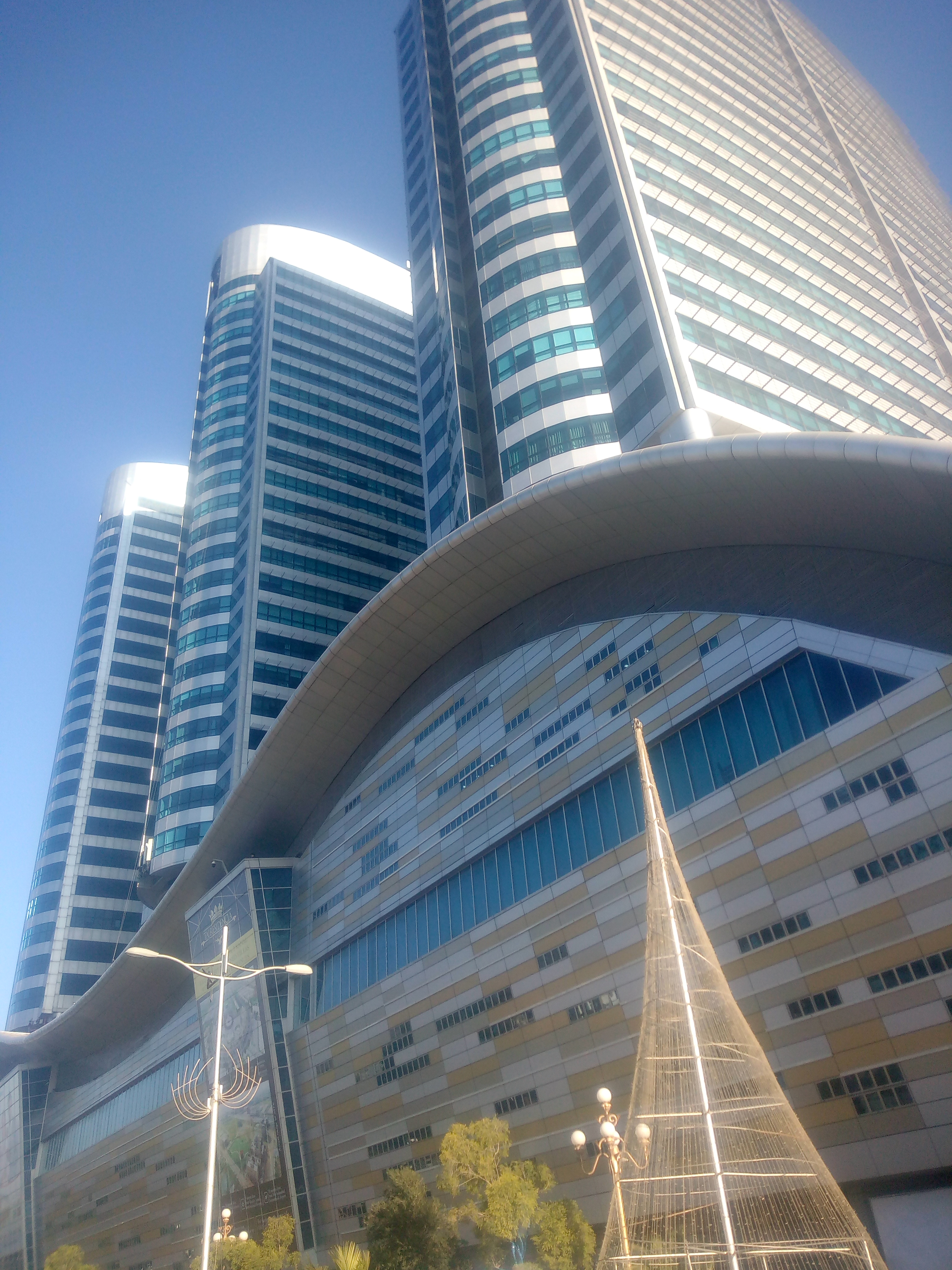 My Own photo shoot of The Centaurus Mall